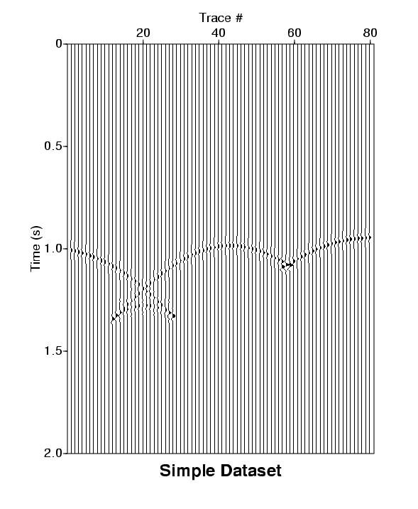 Constructed Seismic Image for a Simple Syncline from Synthetic Dataset in Seismic Unix